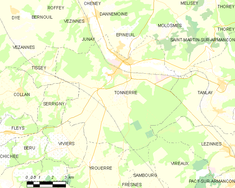 Map of French municipality Tonnerre